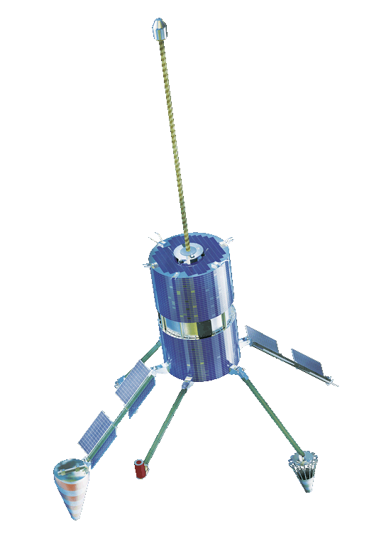 a satellite of the MSPSS "Gonets-D1M" LEOSAT system